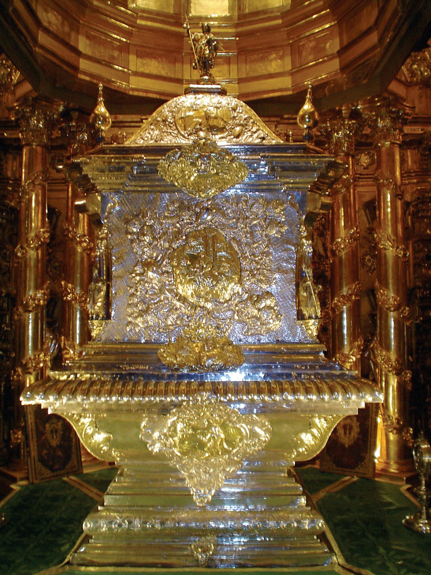 Silver urn with John of God's remains, in San Juan de Dios basilica, at Granada, Spain